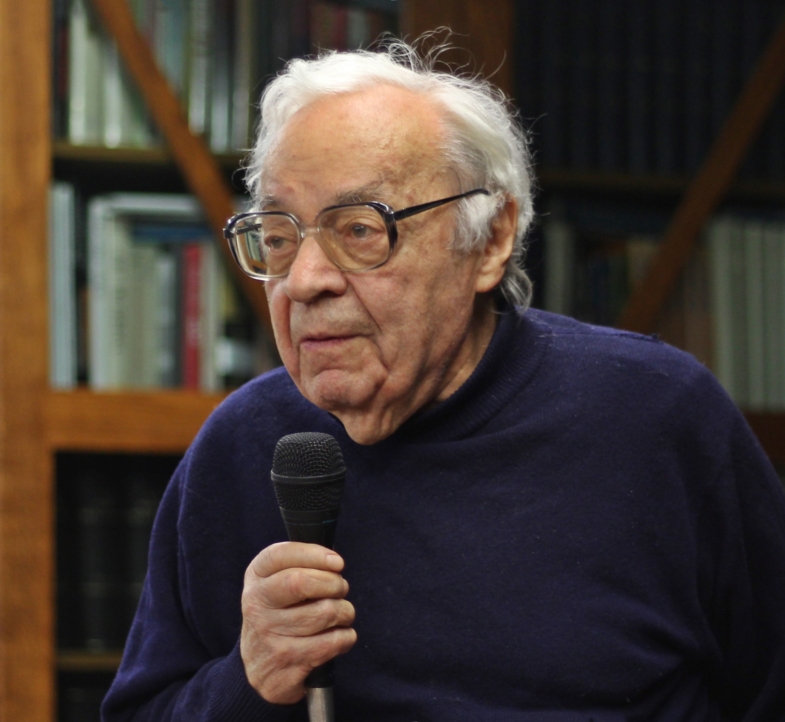 Józef Hen, Polish writer, at the Centre of Jewish Culture at Raby Beer Meisels Street in Kraków